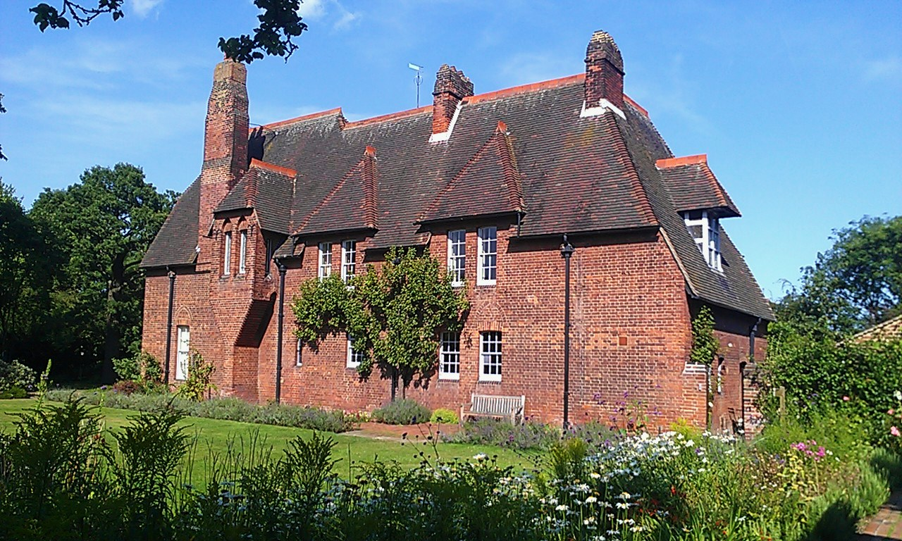 Exterior of the Red House at Upton, Bexleyheath, Greater London.